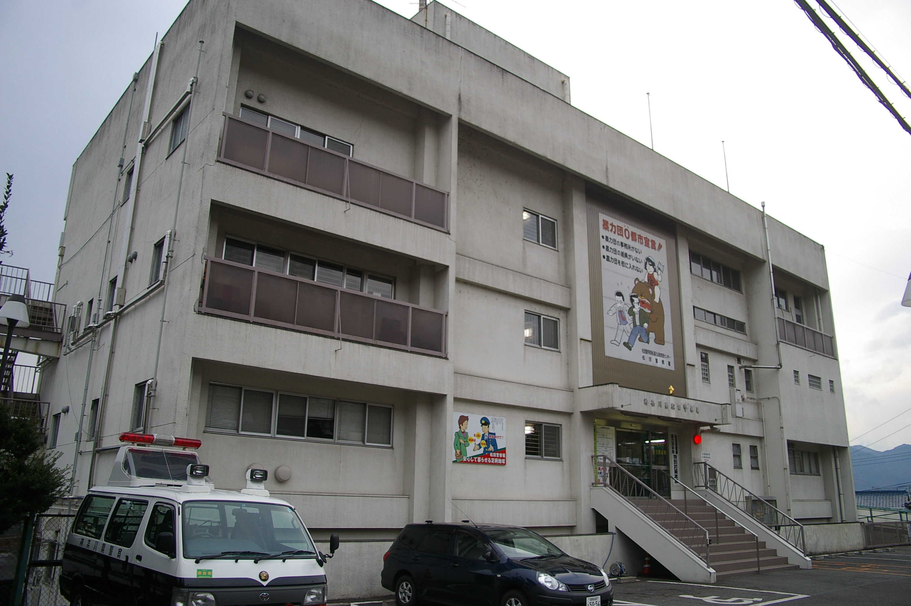 Kanagawa Matsuda Police Station